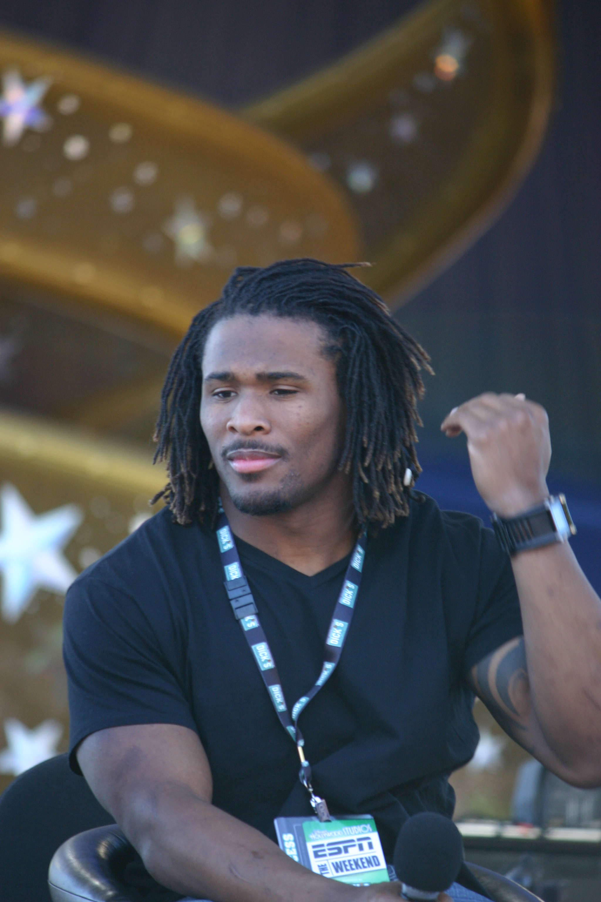 DeAngelo Williams at the Sorcerer Hat Stage during ESPN The Weekend, February 26, 2010